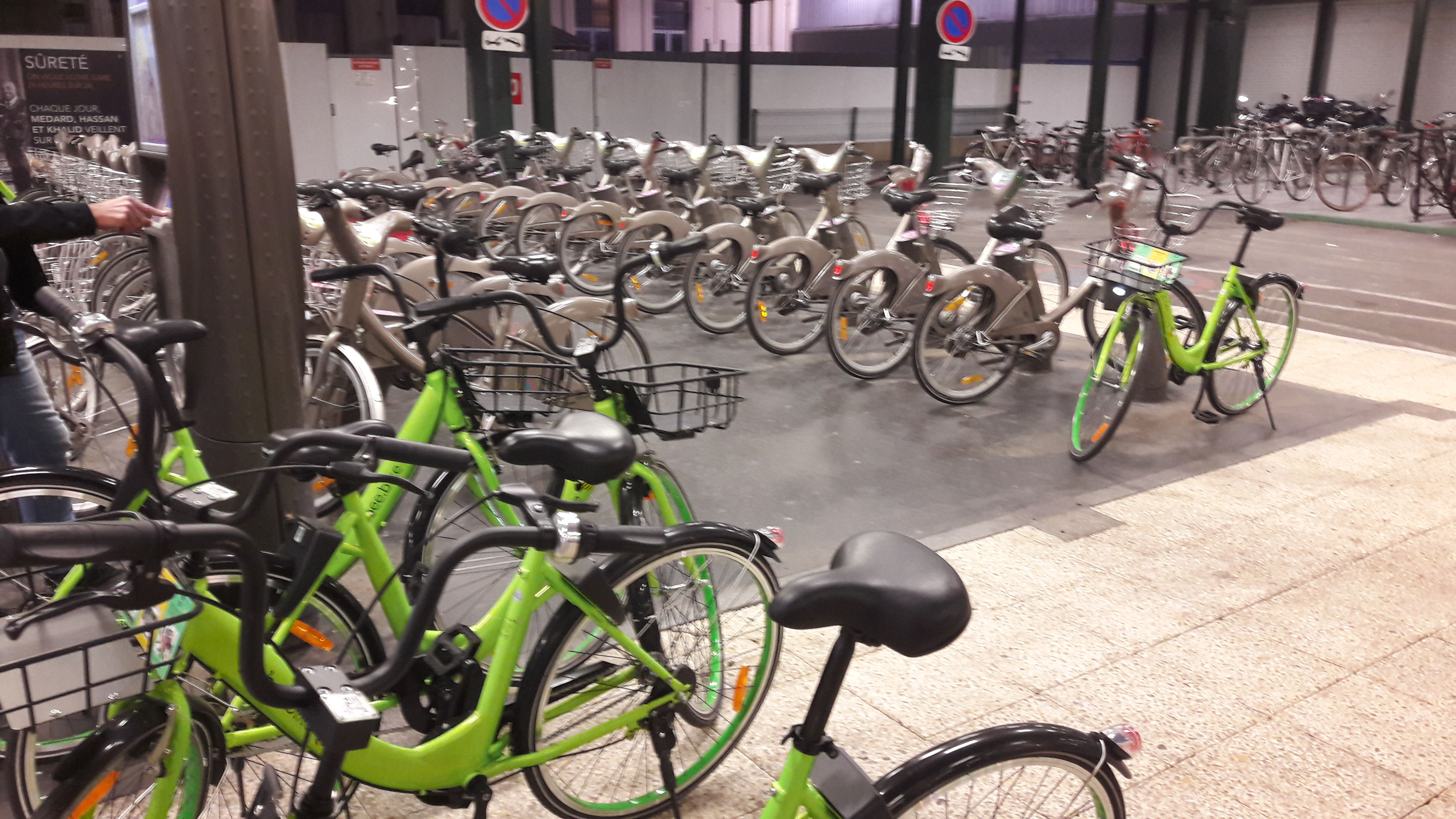 Gobee bike and Vélib' bicycles at a Vélib' station in Paris-Austerlitz railway station, East of Paris